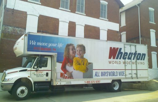 An International truck owned by All Ways Moving & Storage in Washington, PA.